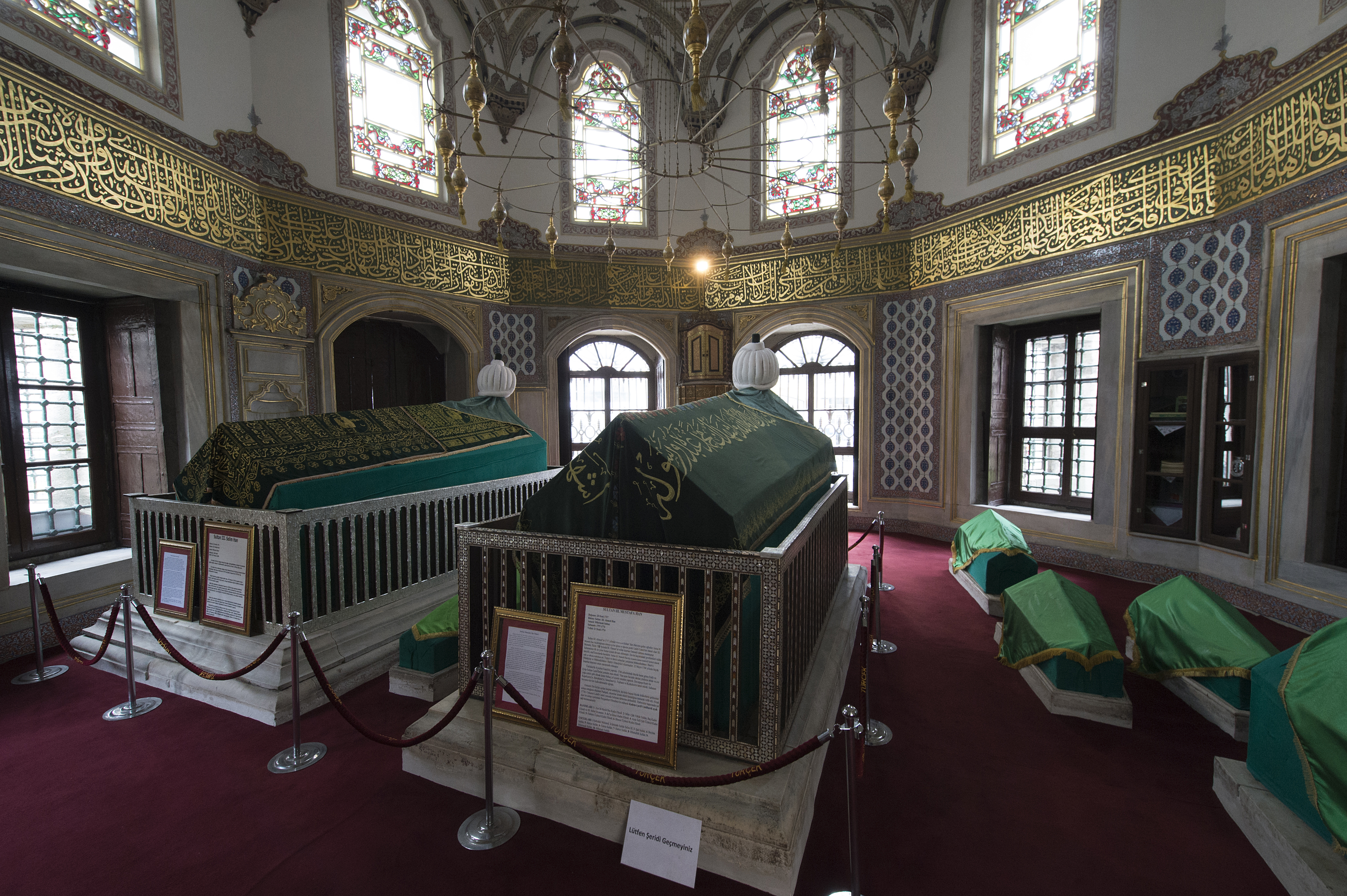 Founded by Mustafa III, built 1759-1763, design by Mehmet Tahir Aga, "greatest and most original of the Turkish baroque architects" (I quote Strolling through Istanbul). It's built on a raised platform, and stands aloof from the busy Ordu Caddesi. In the complex there is a mausoleum, this is a picture. Sultan Mustafa III (1717-1774) is described at the tomb as very well educated, interested in astrology and history, very religious and kind hearted. After an earthquake of two minutes that destroyed half of Istanbul he helped the people from his own wealth. He believed in the necessity for reform. He sent Ahmet Resmi Efendi to Frederick II of Prussia, who let Mustafa know (his) 4 secrets: Read history and examine the experiences; Have a powerful army and teach soldiers in time of peace. The sultan died of an heart attack in 1774 during the Ottoman-Russian War. Sultan Selim III (1761-1808) was Mustafa III’s son. From the Wikipedia: Selim III (Ottoman Turkish: سليم ثالث Selīm-i sālis) (24 December 1761 – 28 or 29 July 1808) was the reform-minded Sultan of the Ottoman Empire from 1789 to 1807. The Janissaries eventually deposed and imprisoned him, and placed his cousin Mustafa on the throne as Mustafa IV. Selim was killed by a group of assassins subsequently after a Janissary revolt.